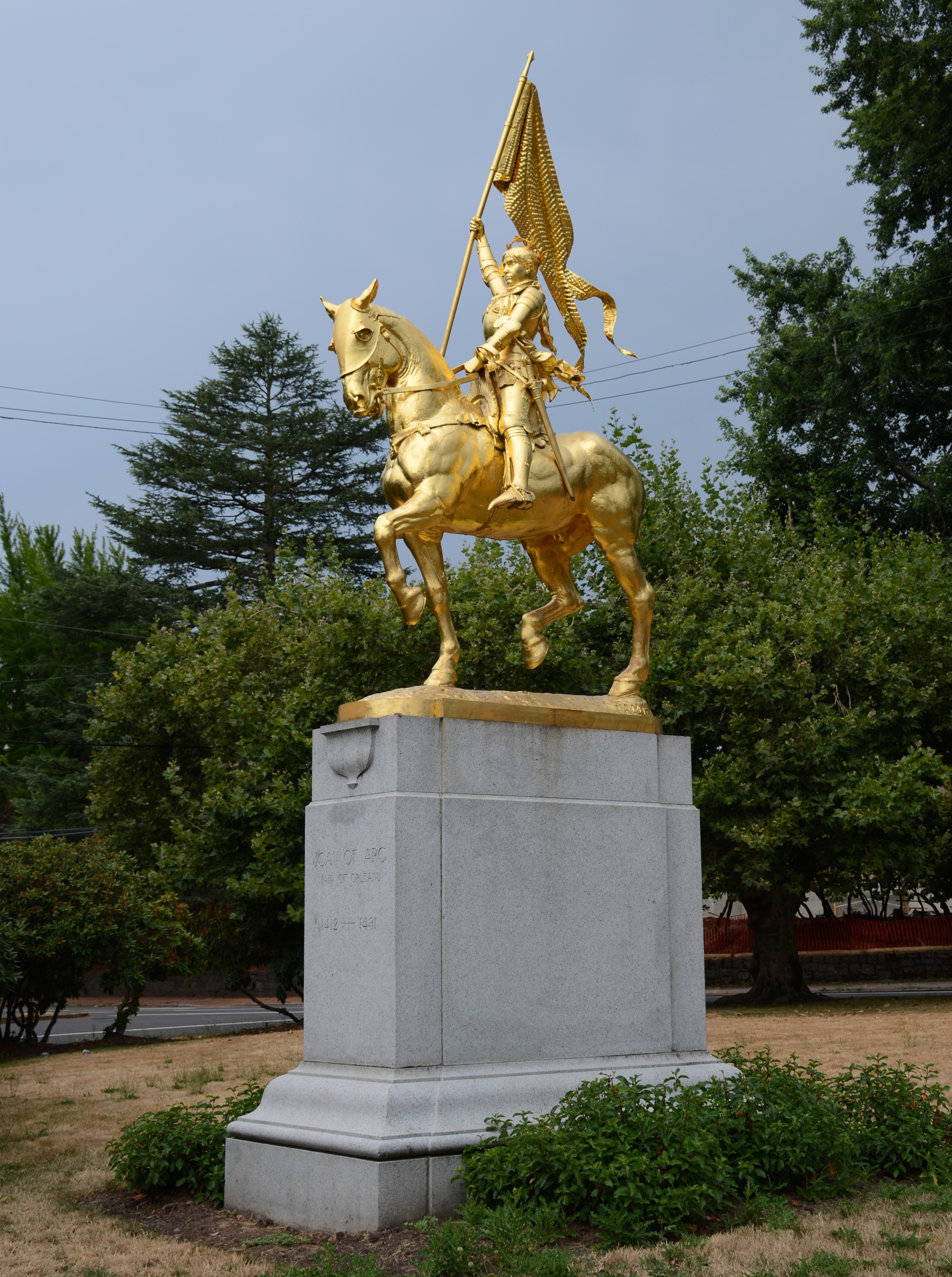 Gilt bronze equestrian sculpture of Joan of Arc by Emmanuel Frémiet in Coe Circle (at NE 39th & Glisan) in the Laurelhurst neighborhood of Portland, Oregon, U.S.A.